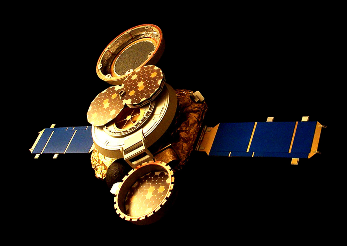 This artist's conception shows the Genesis spacecraft in collection mode, opened up to collect and store samples of solar wind particles. The cover of the science canister contains one set of collection materials. It is the same kind of hexagonal silicon wafer array that comprises the stack of four arrays that were rotated out of the interior of the canister when the spacecraft began to orbit L1. The bottom three of the stacked arrays are controlled independently, and may be rotated out from the cover of the top of the stack to collect particular types of solar wind. Inside the canister is an electrostatic concentrator to increase the collection of light-weight solar wind particles. It is exposed when the array stack is rotated out. The two solar panels, shown in blue in this depiction, which extend to the side of the spacecraft bus, provide electrical energy for the functions performed by the rest of the spacecraft.